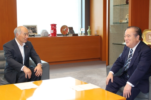 Masayoshi Yoshino, Minister for Reconstruction, talked with Masaru Hashimoto, Governor of Ibaraki Prefecture, at Ibaraki Prefectural Government Building in Mito City, Ibaraki Prefecture on June 28, 2017.